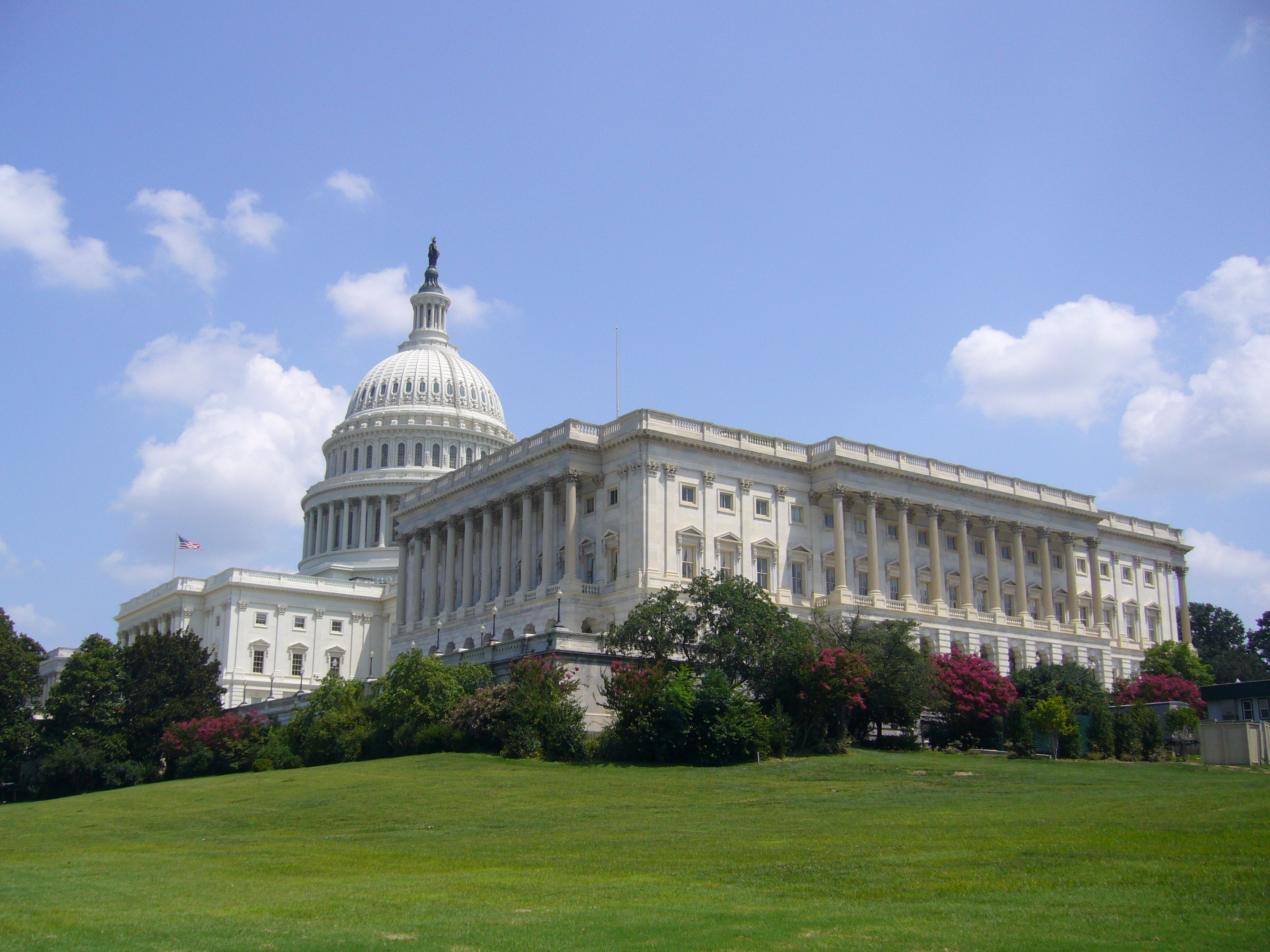 United States Capitol in Washington, D.C.